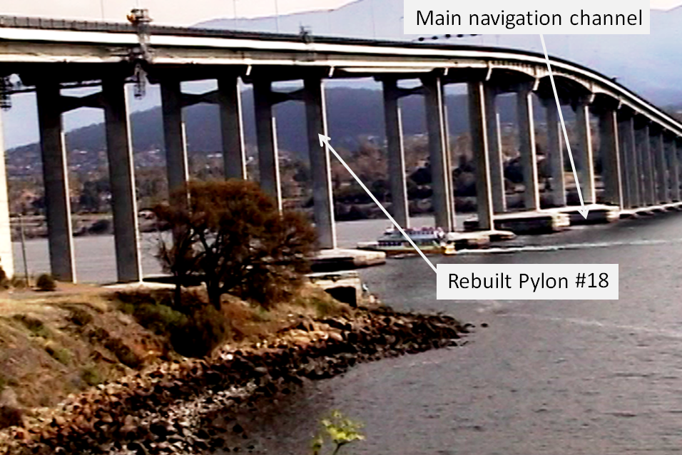 Tasman Bridge, Hobart, Tasmania, showing the sections rebuilt in 1977 following the Tasman Bridge disaster. I know the quality ain't great but 3000 km is too far for me to go back and get better photos.